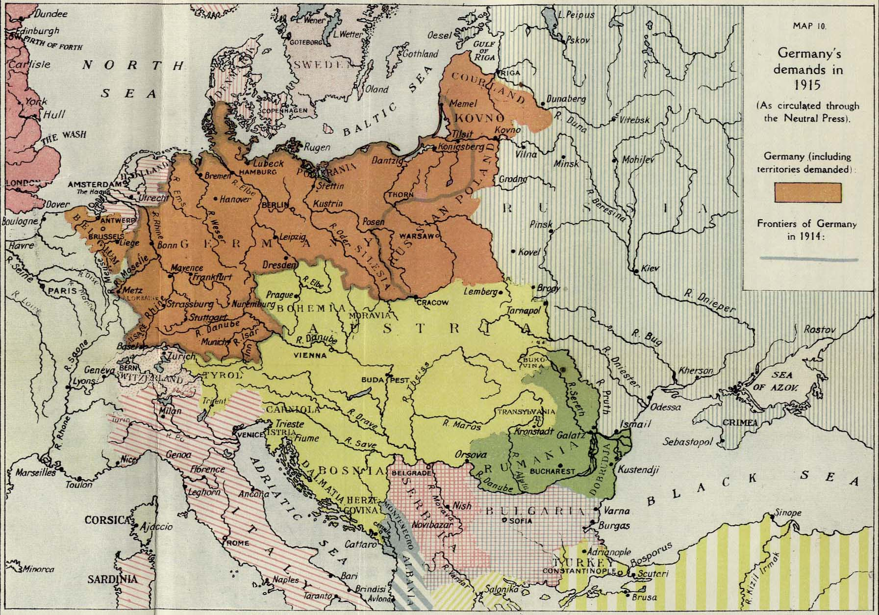 Germany's Demands in 1915 as circulated through the Foreign Press, according to the British Dominions Year Book 1918.